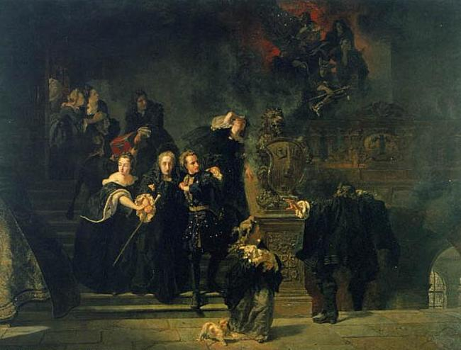 It depicts the events of the great castle fire, in Three Crowns Castle, in particular the escape of Princess Hedwig Sophia, old Dowager Queen Hedwig Eleanor, King Carles XII and Princess Ulrica Eleanor.